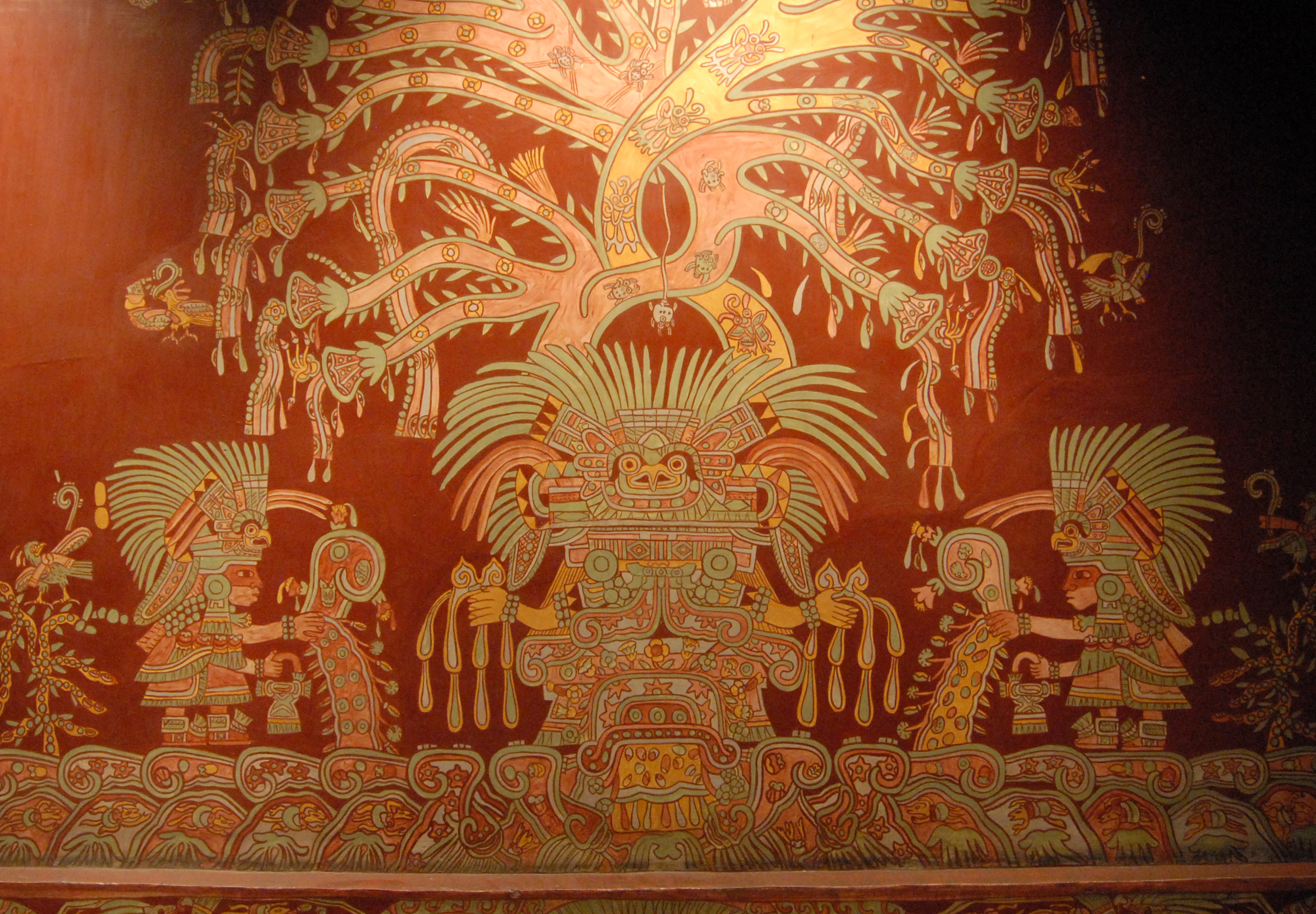 This reproduction of one of the murals depicting the Great Goddess of Teotihuacan from the Tepantitla apartment complex located at Teotihuacan is in the National Museum of Anthropology in Mexico City.